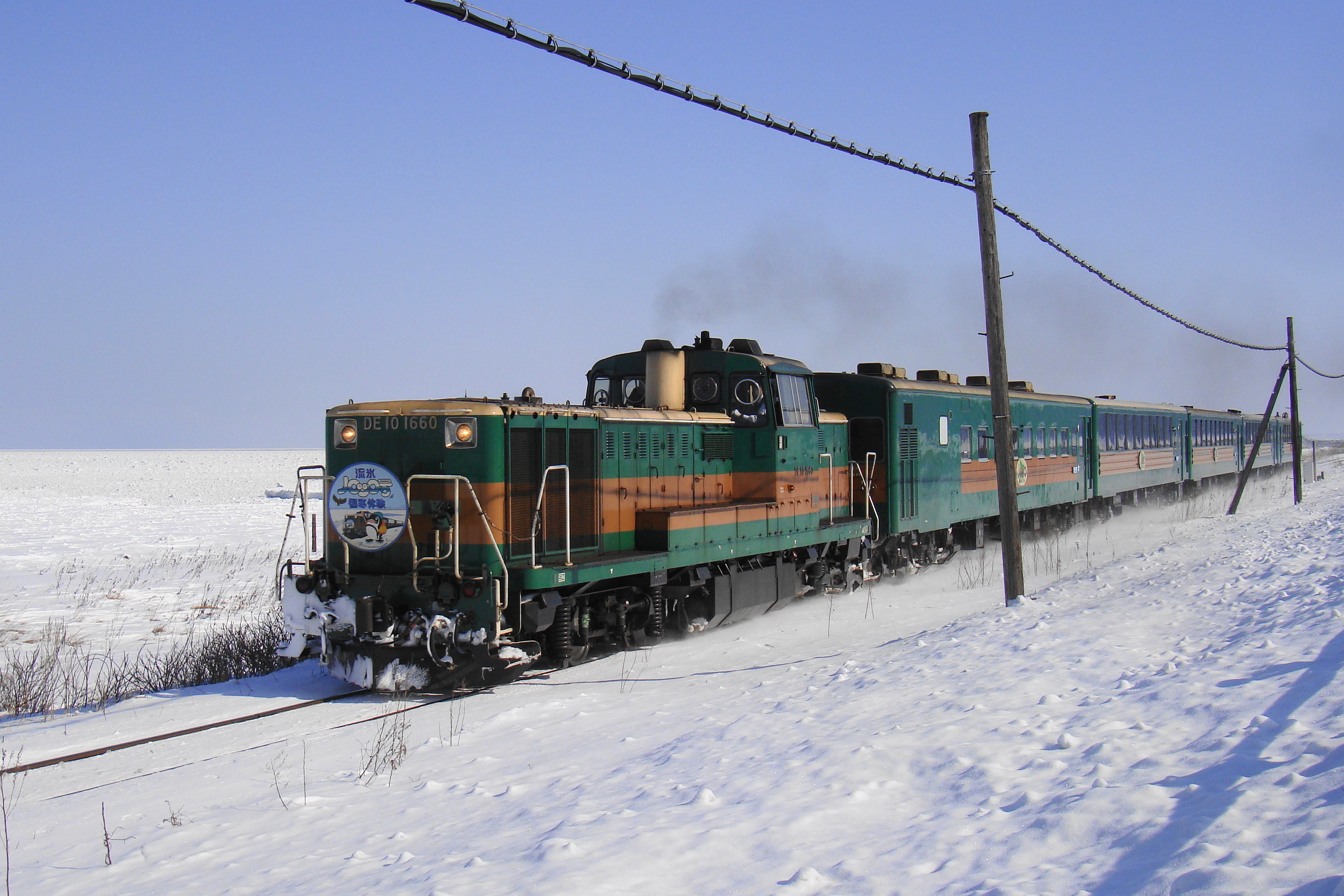 "Ryūhyō Norokko" Drift ice Sightseeing Train